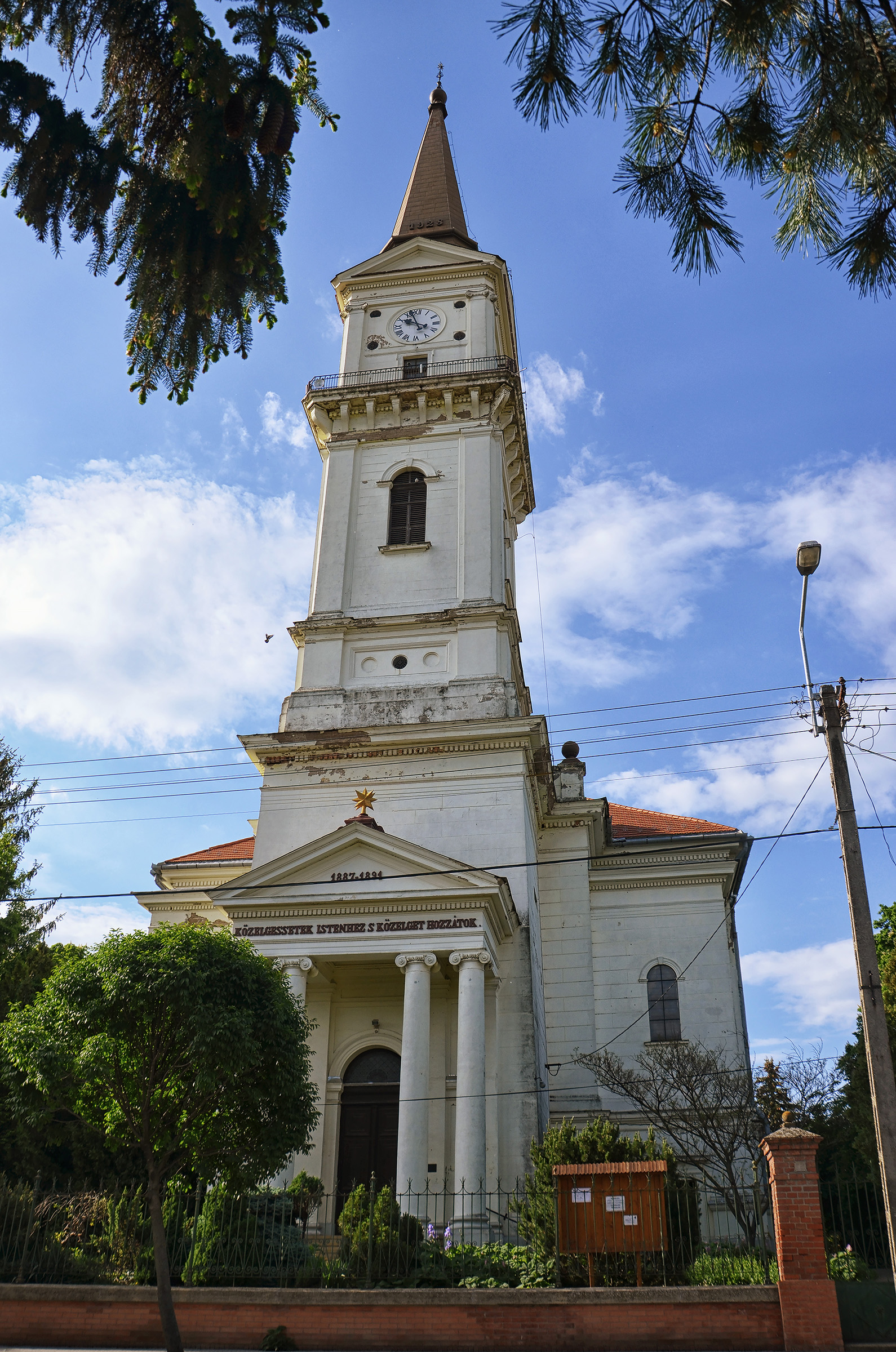 The Reformed church in Dévaványa, Hungary